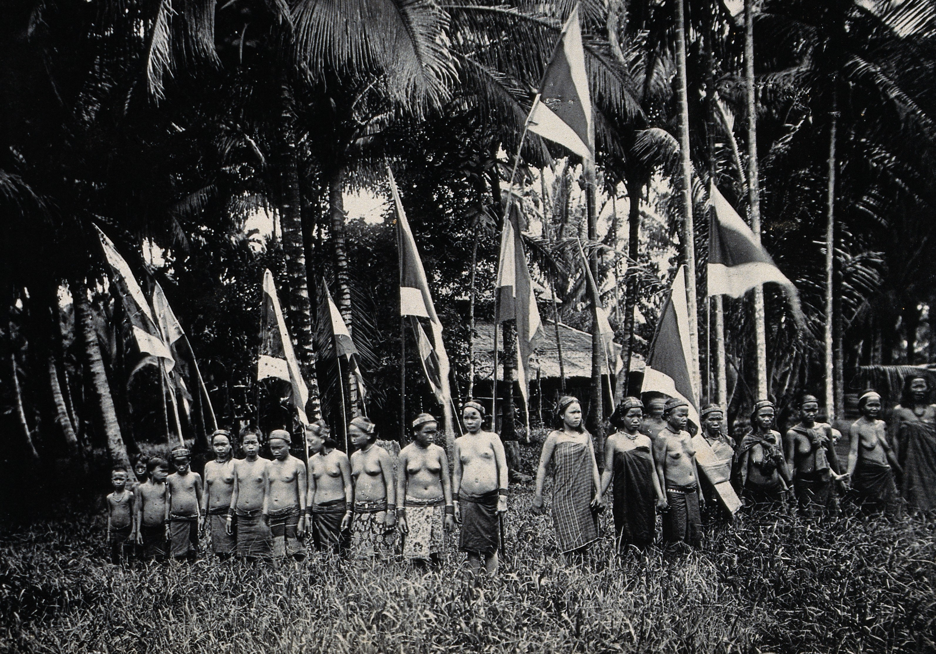 Sarawak: Murut tribeswomen at a head feast. Photograph. Iconographic Collections Keywords: Tribe; Population Groups; Borneo; Tribal; Charles Hose; Anthropology; Malaysia; Ethnography